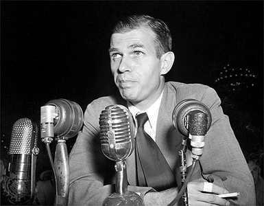 Alger Hiss, American statesman accused of espionage